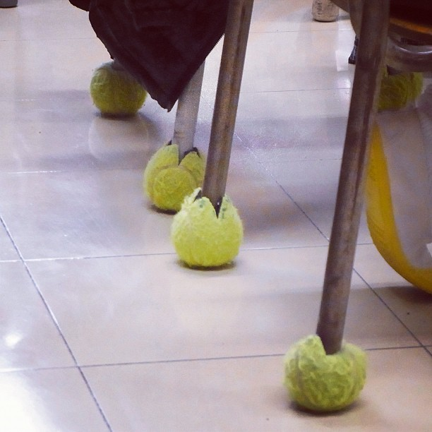 But, be bad for the health arise from chemical substances ? (source)